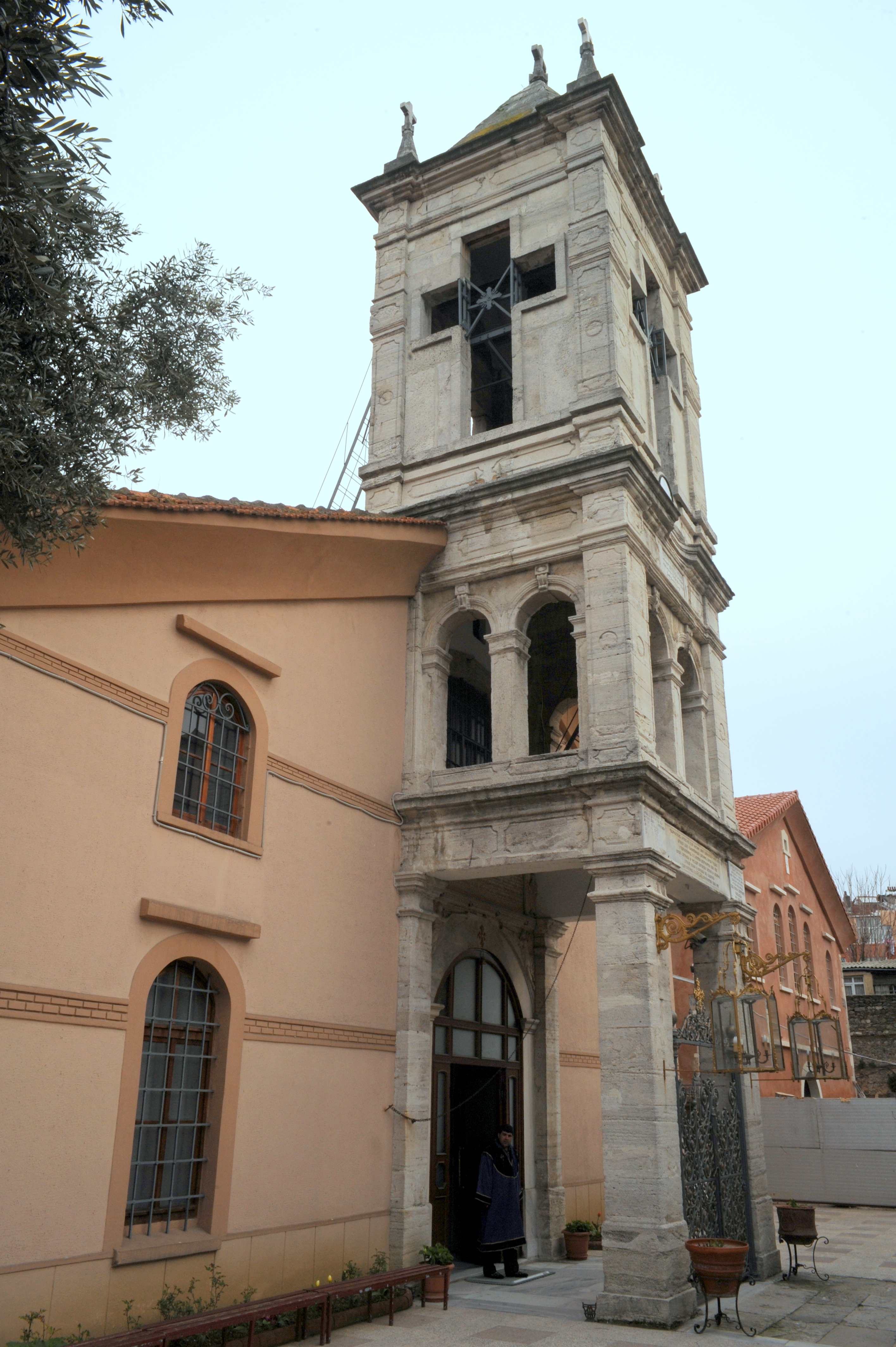 Surp Asdvadzadzin (armenian) church, Armenian Patriarchate of Constantinople, Istanbul, Turkey.